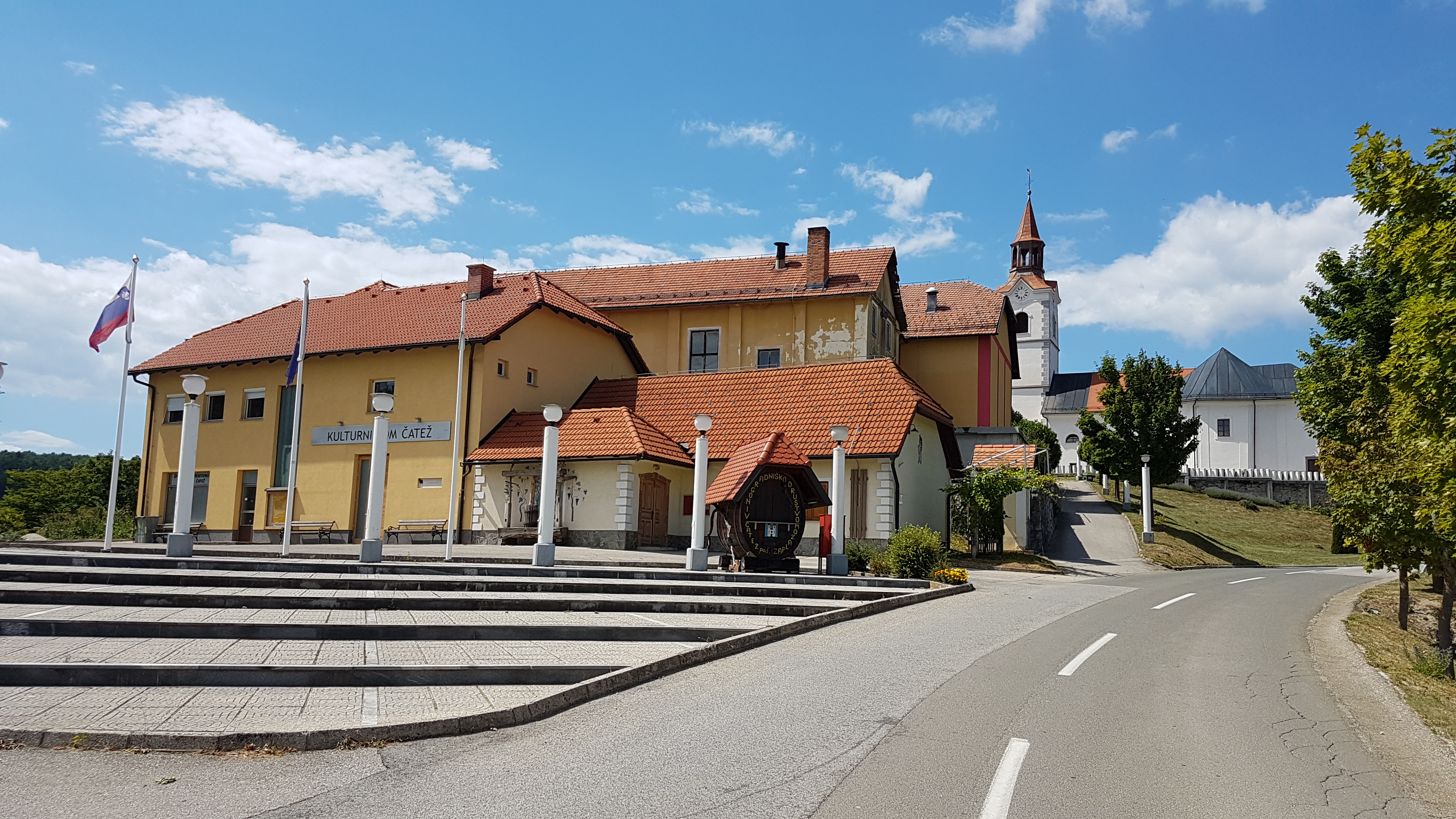 Čatež, main square with community building and church